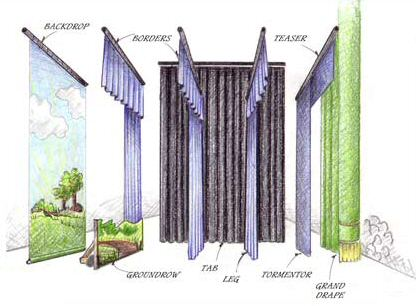 stage curtain types